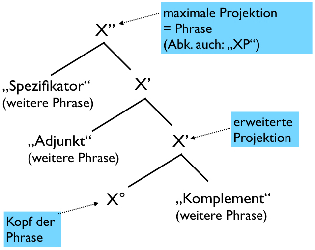 X-bar schema, German